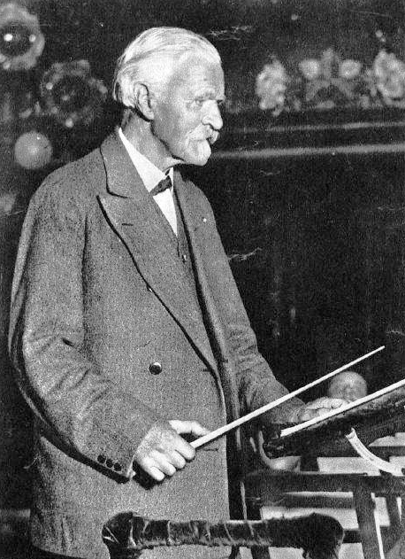 French composer Vincent d'Indy (1851-1931) directing a concerto played by the Pablo Casals orchestra in Barcelona.